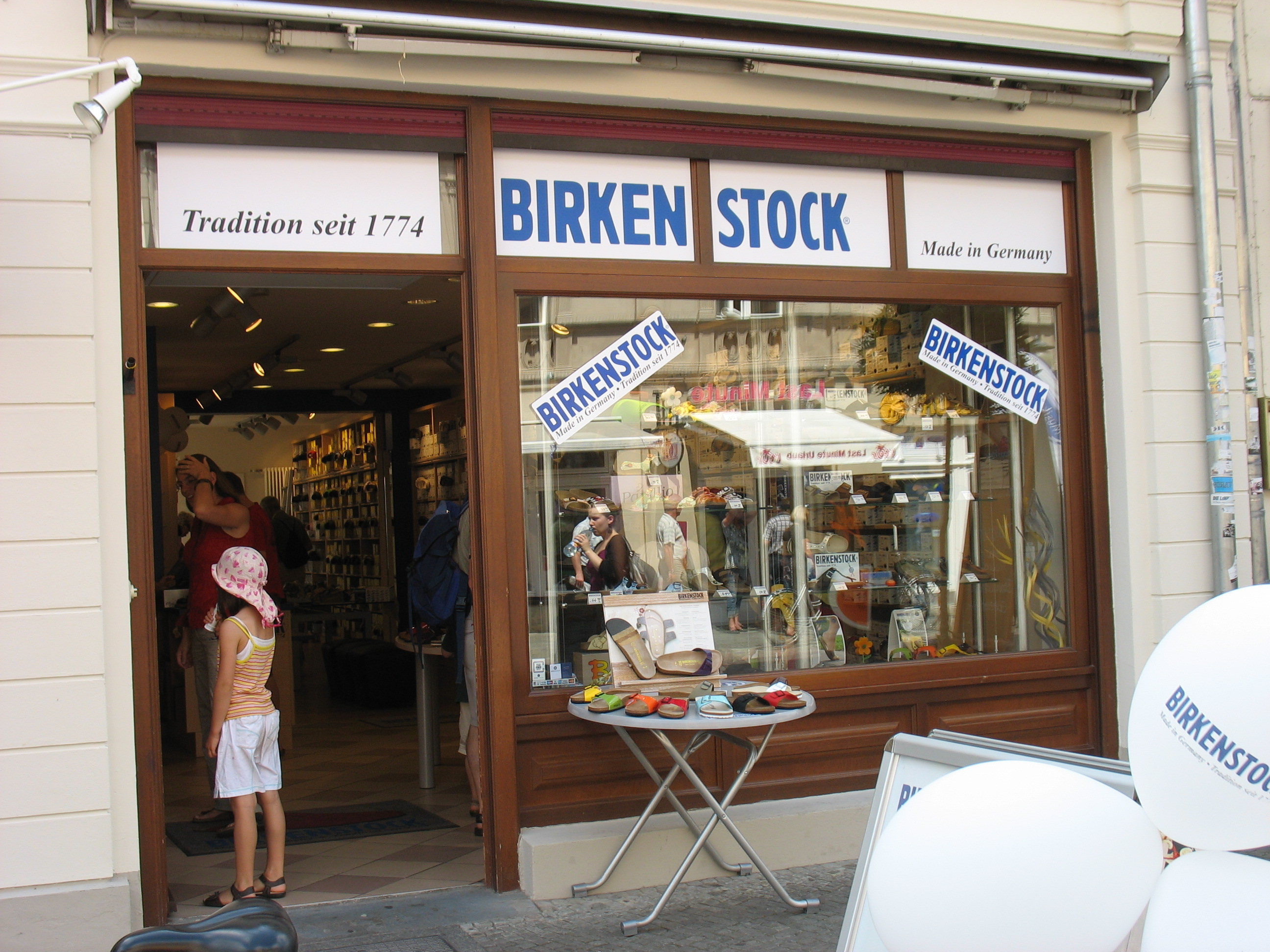 Birkenstock shop at Potsdam (Germany)